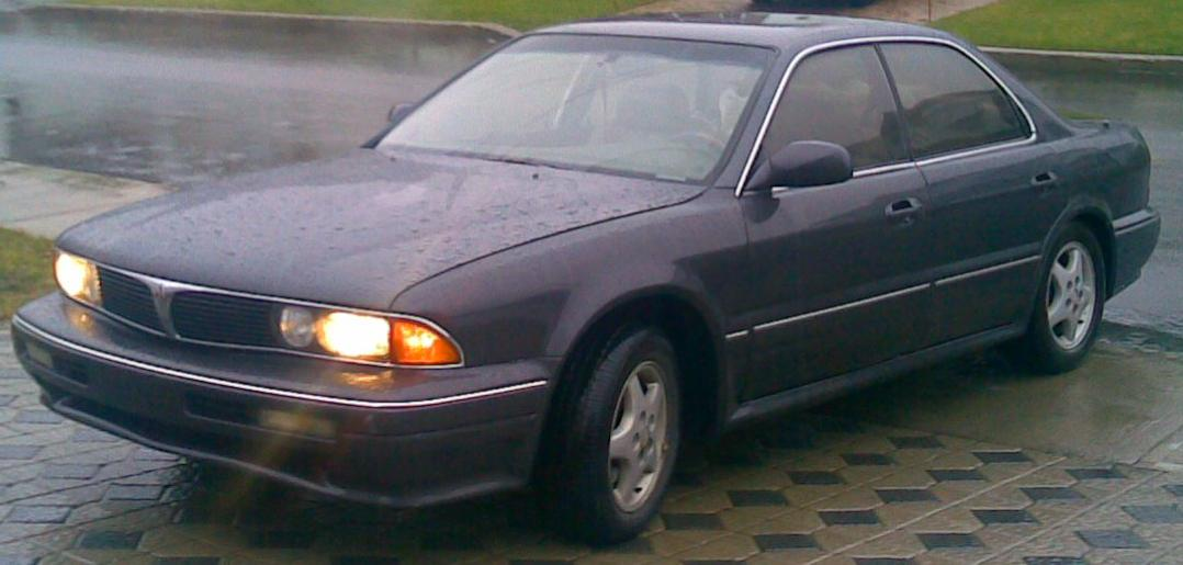 1992–1996 Mitsubishi Diamante LS sedan, photographed in Montreal, Quebec, Canada.